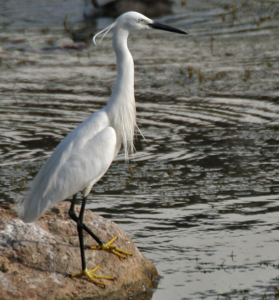 Little Egret Egretta garzetta in Hyderabad , India.